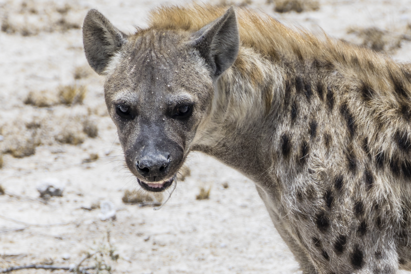 while we were shooting images of the lion pride, this hyena came close to take a look.